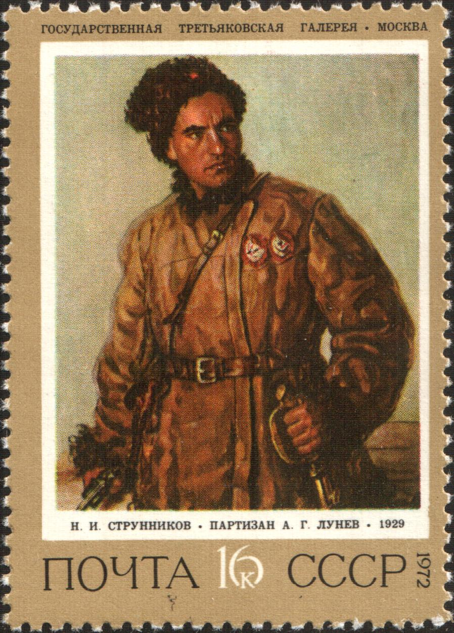 USSR stamp